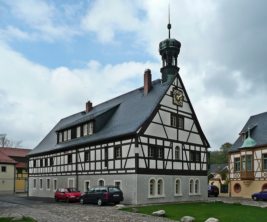 Olbernhau-Grünthal, historic copperworks, tavern.